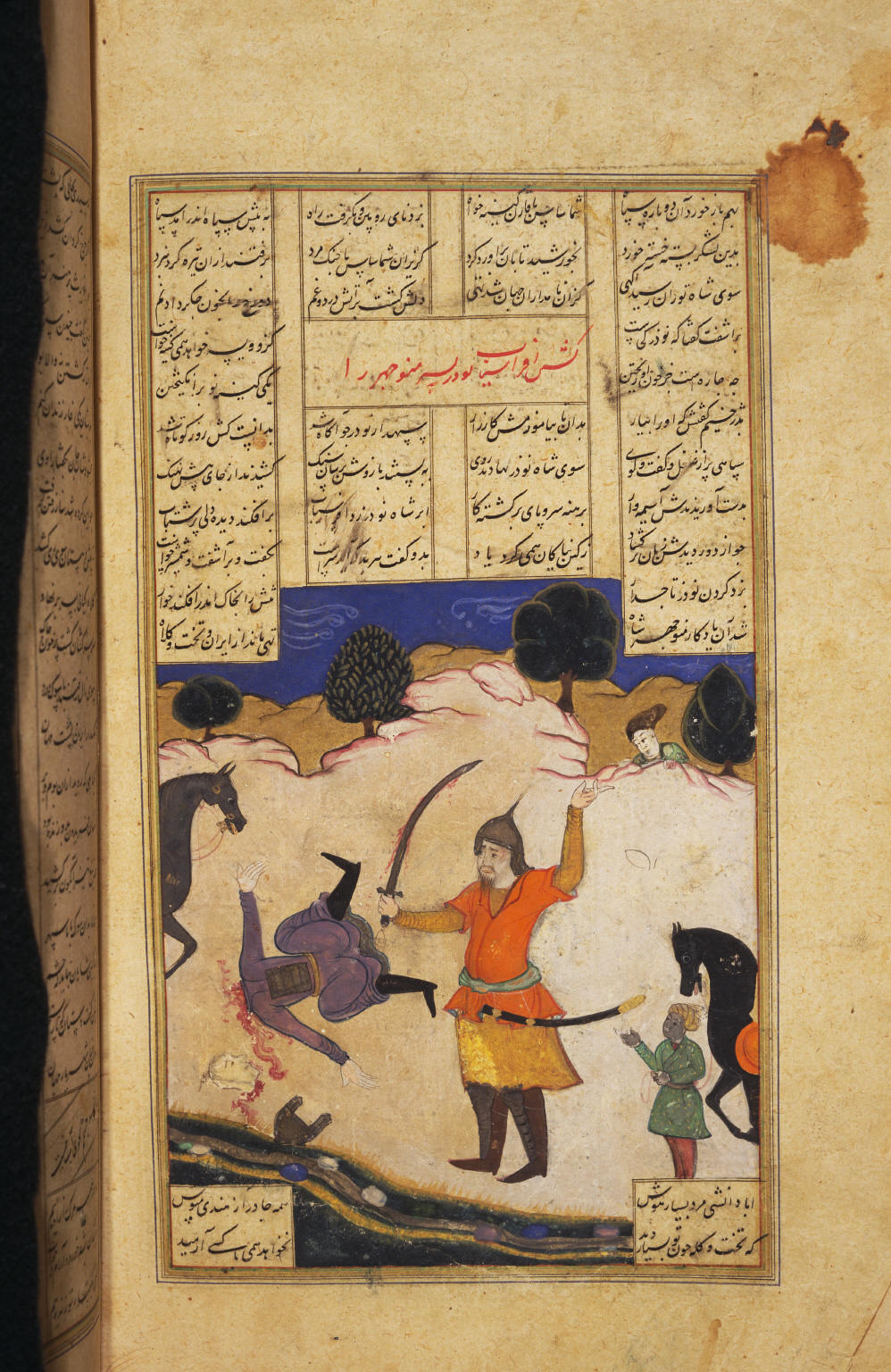 folio with illumination from a manuscript of the Shahnameh epic[1]